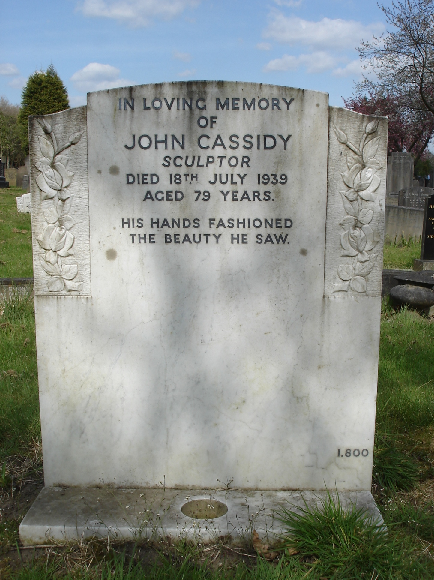 Grave of John Cassidy (1860-1939 Irish sculptor), Southern Cemetery, Manchester